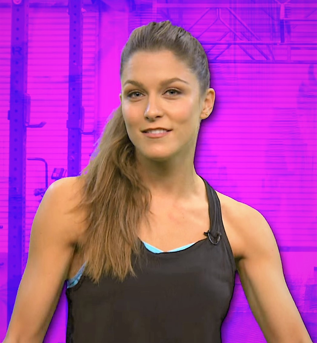 Ex On The Beach: Body SOS 1: Meet Charlotte Charlotte is a former Miss World who loves surfing, yoga (and wine, obis!) Don't miss brand new Ex On The Beach: Body SOS, starting on Wednesday 17th Jan @ 8pm - only on MTV! Subscribe to MTV for more great videos and exclusives! Get social with MTV @ 💋 Twitter: 🍺 Instagram: 💅 Tumblr: 🍿 Facebook: 🎷 Official